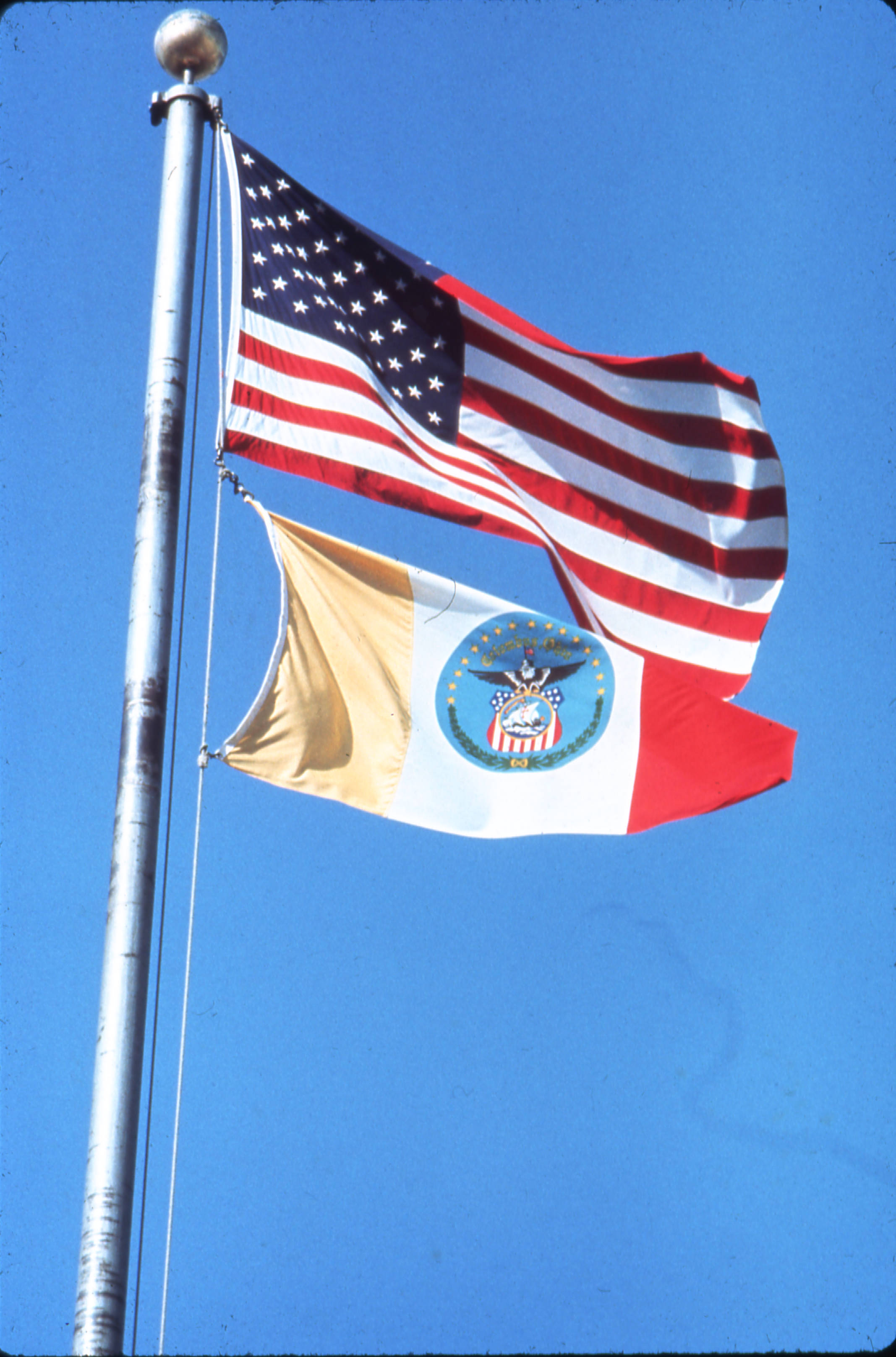 "A view of two flags on a flag pole. The flag of the United States flies above the flag for the City of Columbus."